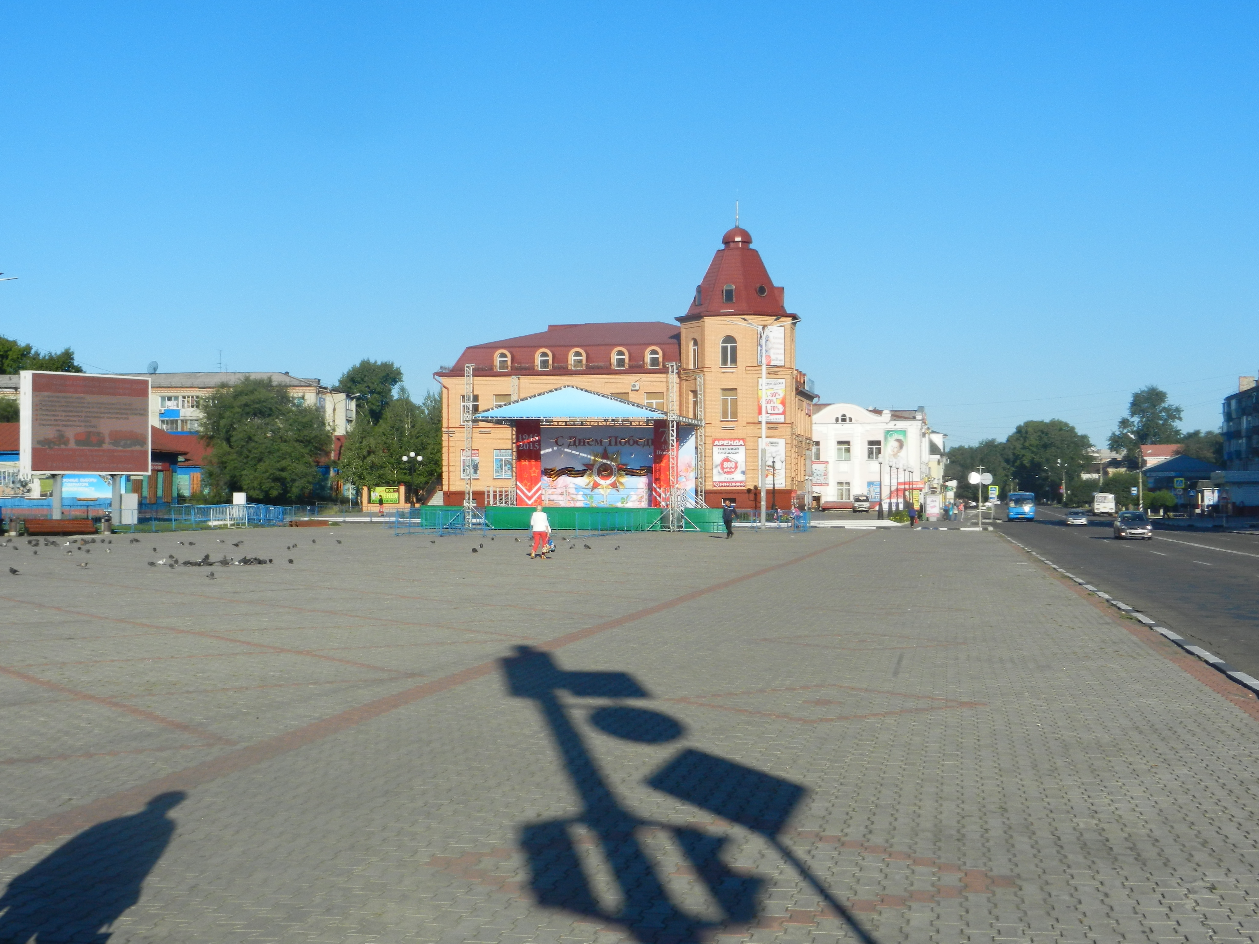 Belogorsk